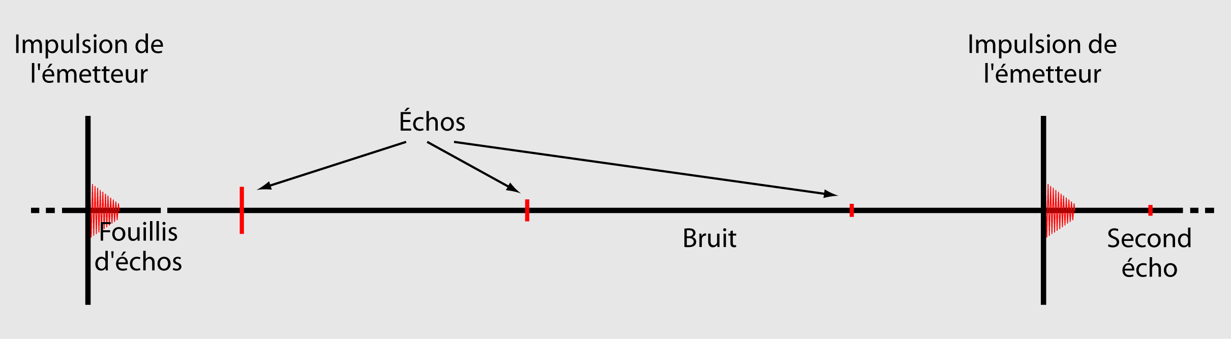 Time domain diagram showing both transmitted pulses and received echoes (after TJC from English WP).